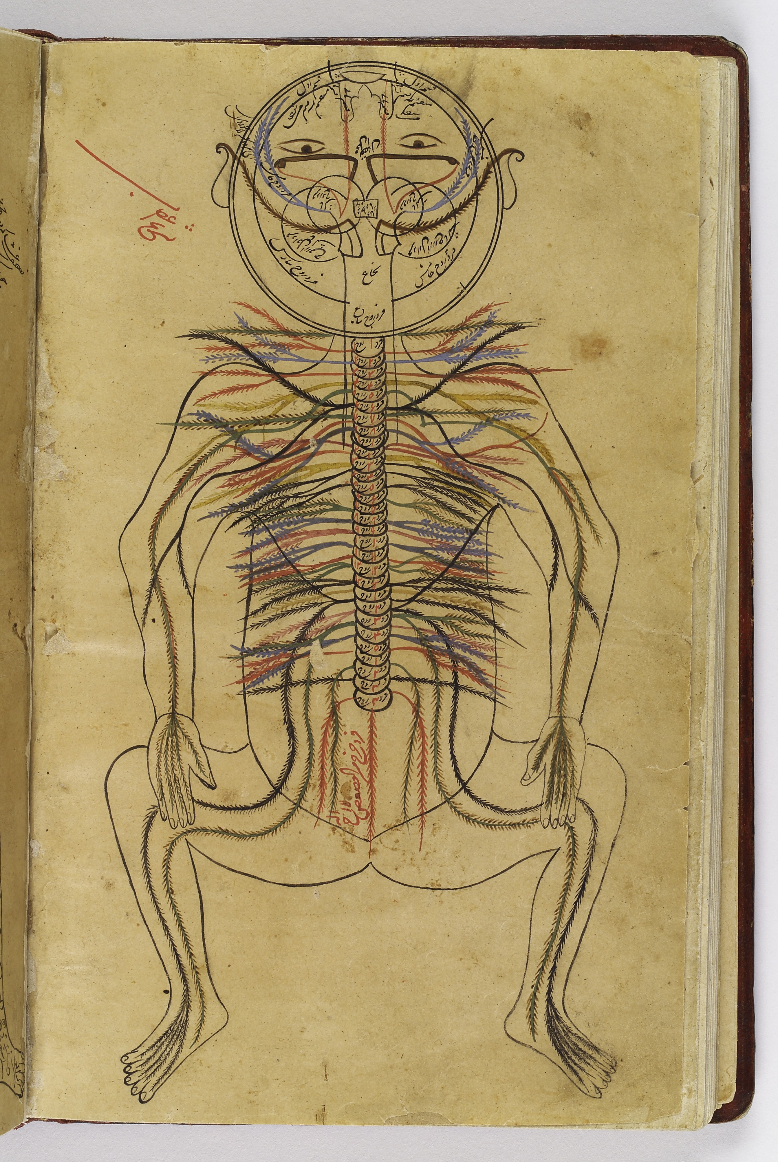 Nervous system Asian Collection Keywords: Arabic; avicenna; Islamic; ms or. 155; Persian; Medicine; Nervous System; Neurology; Anatomy; Ibn Sina (Avicenna); Middle East; Iraq; Iran